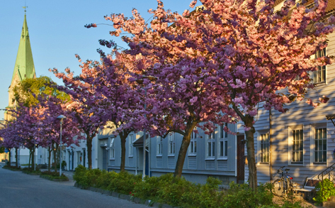 Posebyen is Northern Europe's longest sequence of attached wooden buildings